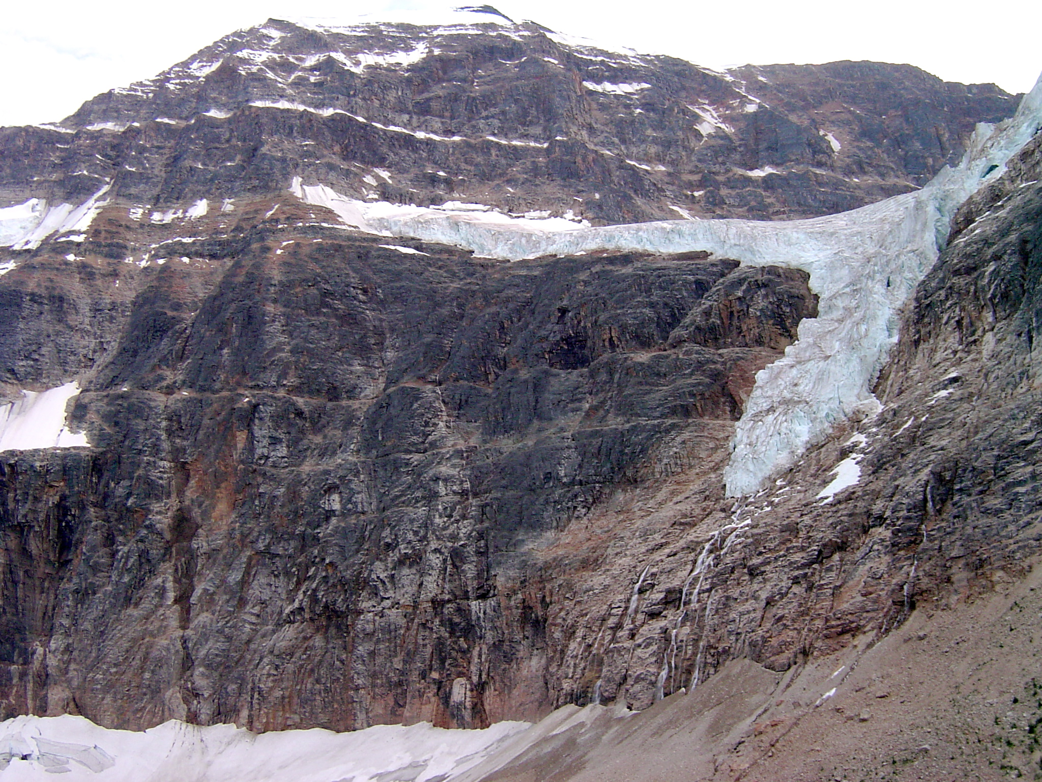 Angel Glacier and the slopes of Mount Edith Cavell, near Jasper, Alberta, in the Canadian Rockies. Photo taken in the summer of 2004. Source: Photo by me, User:Balcer.